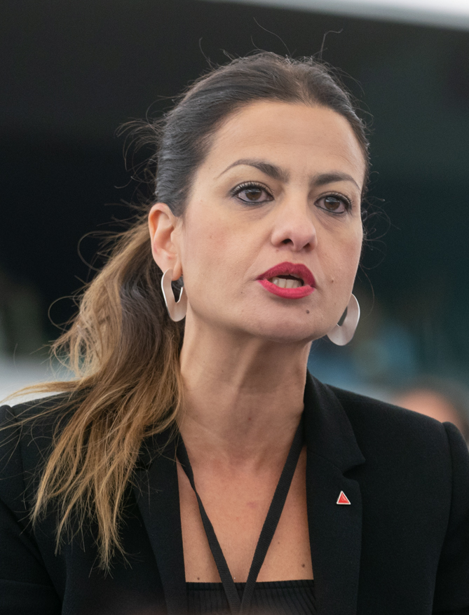 This photo is free to use under Creative Commons license CC-BY-4.0 and must be credited: "CC-BY-4.0: © European Union 2019 – Source: EP". No model release form if applicable. For bigger HR files please contact: webcom-flickr(AT)